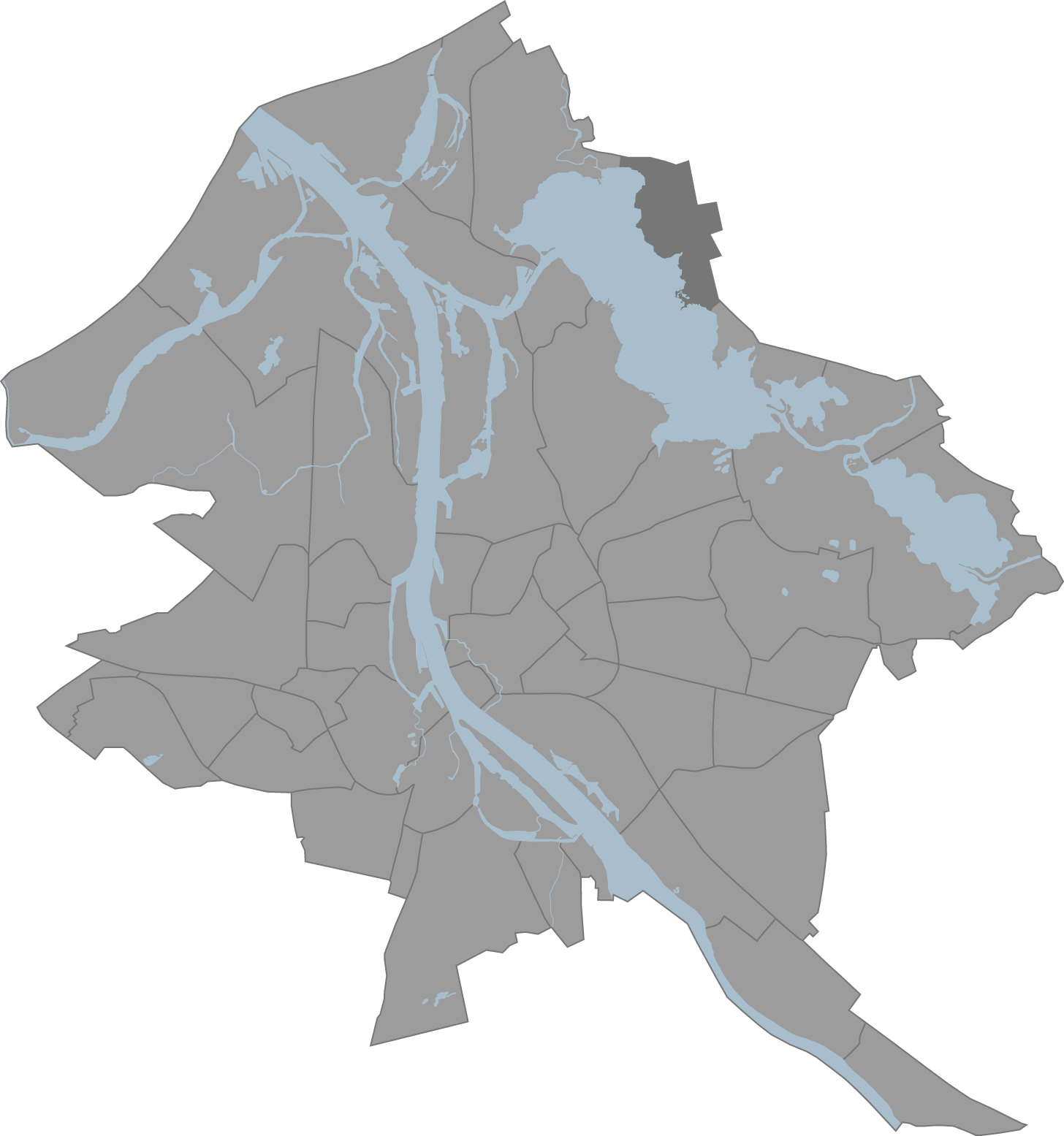 A map of Riga, Latvia with the eponymous commune highlighted